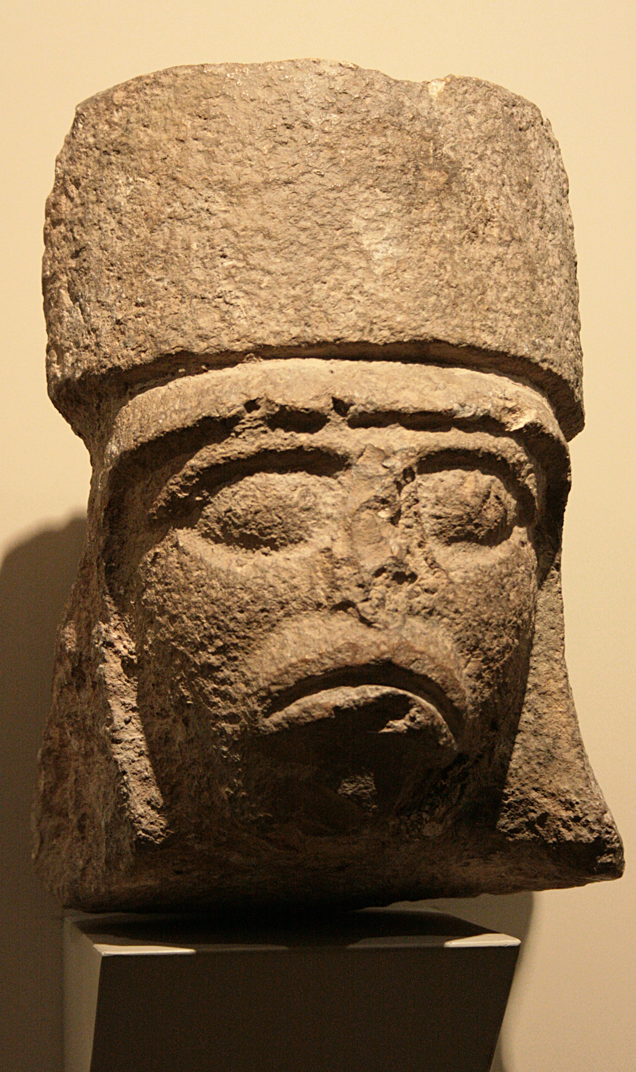 Stone head from the Maya site of Uxmal. Late Classic period (600-900 AD). Museo de América, Madrid, Spain